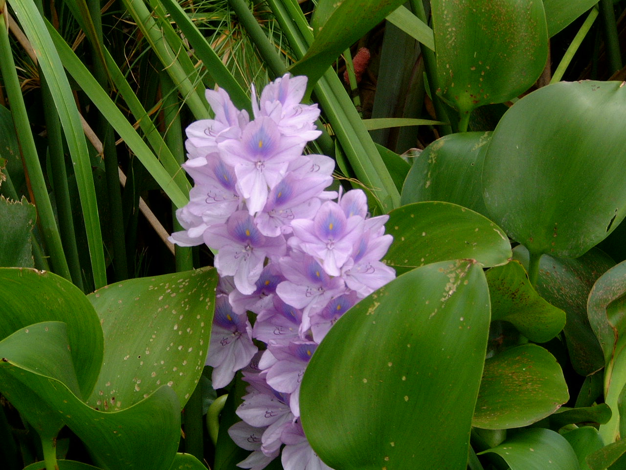 Flower at Río Pilcomayo NP, Argentina